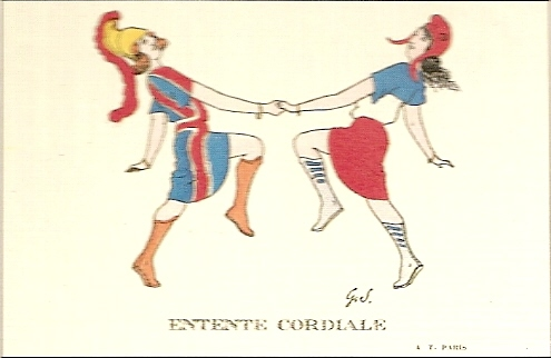 Britannia and Marianne dancing together on a 1904 French postcard: a celebration of the signing of the Entente Cordiale.